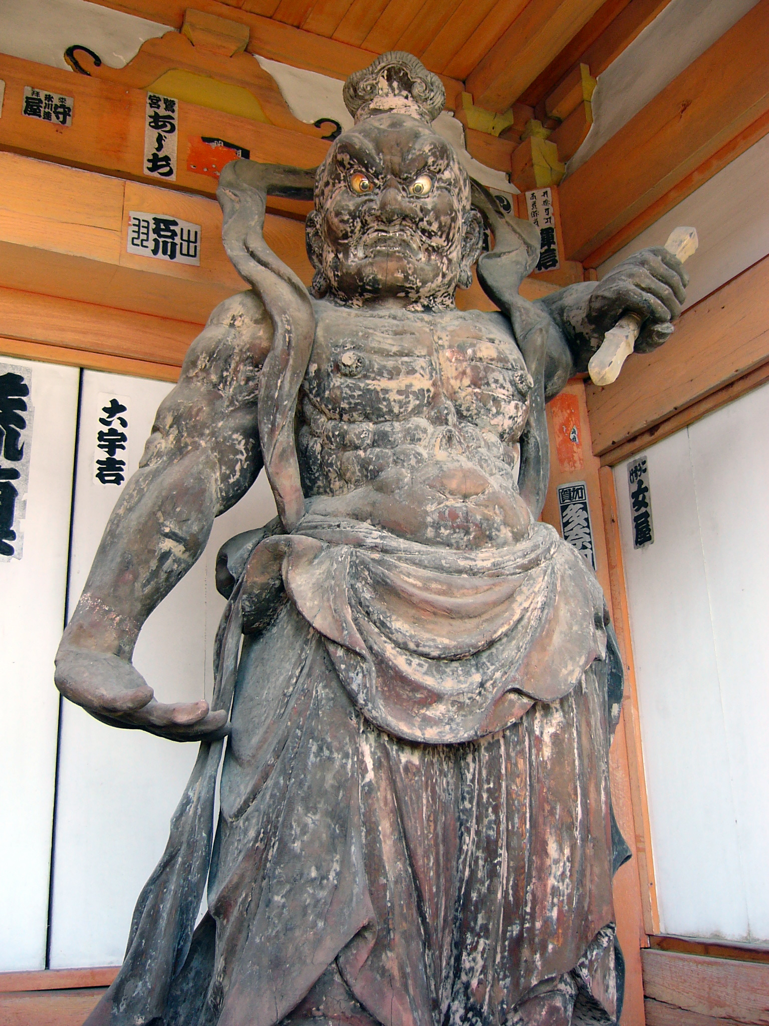 Sojiji in Ibaraki City, Osaka prefecture, Japan